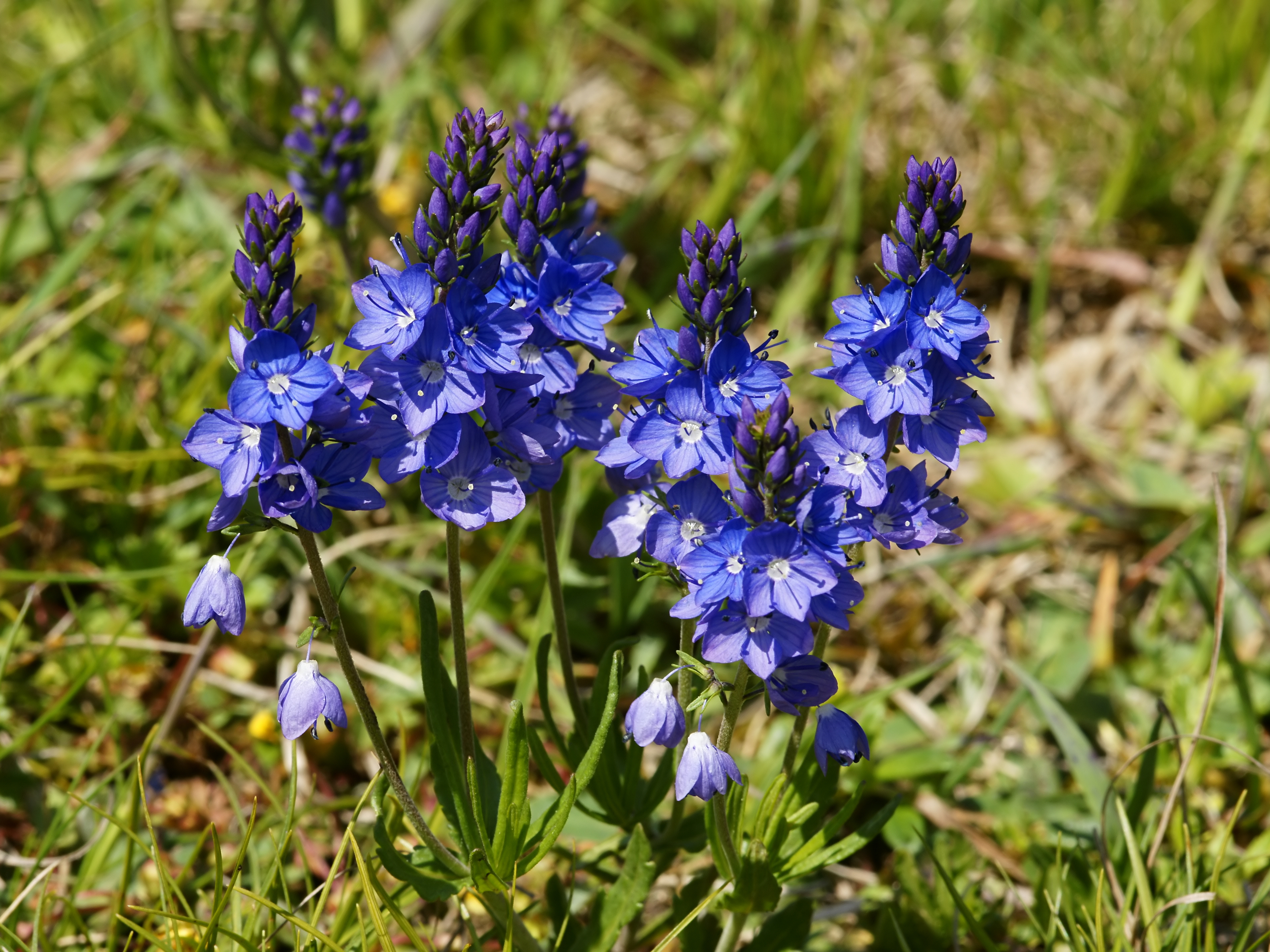 The in Belgium rare Sprawling Speedwell. Approximate co-ordinates: plant located within 3 km from Dourbes